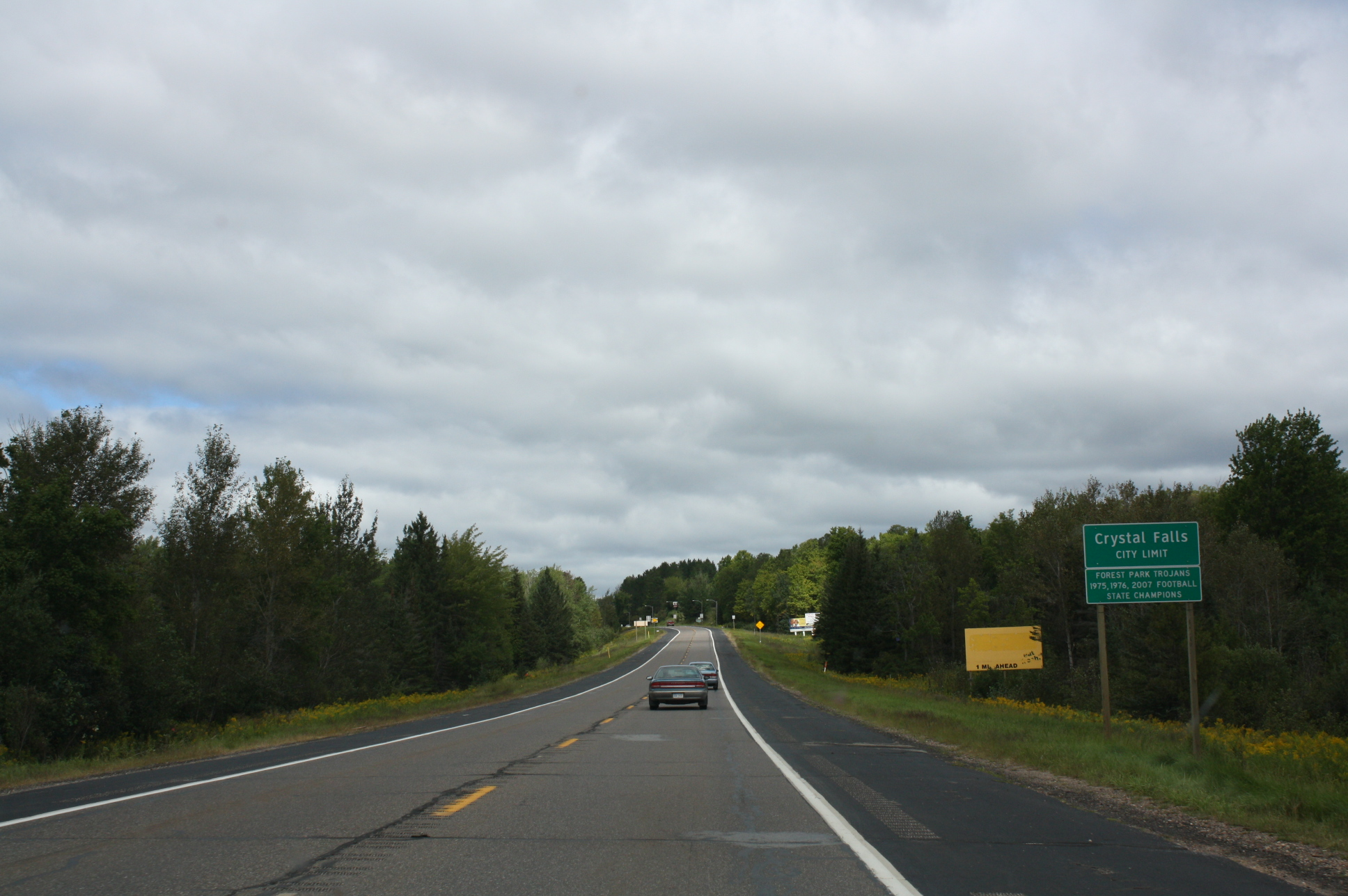 Looking at downtown Crystal Falls, Michigan on US Highway 2 / US Highway 141.